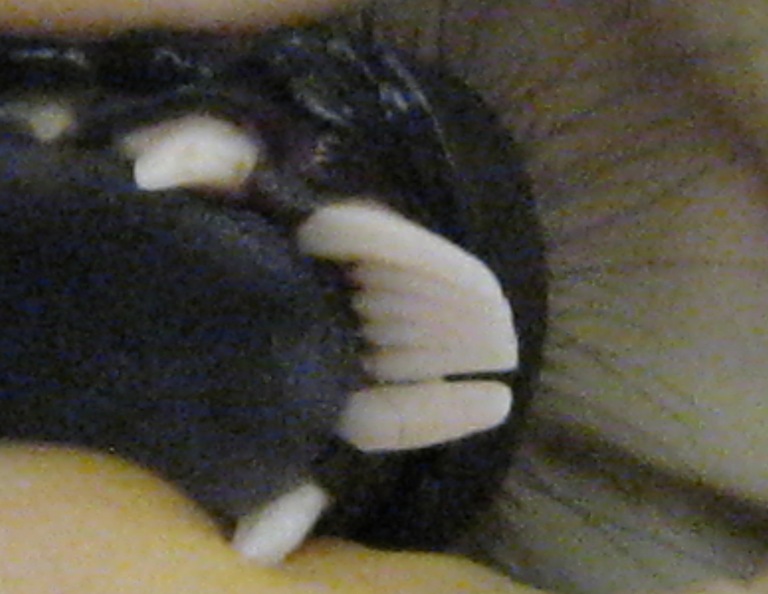 Toothcomb of a ruffed lemur (Varecia variegata); taken during a routine phsycial examination